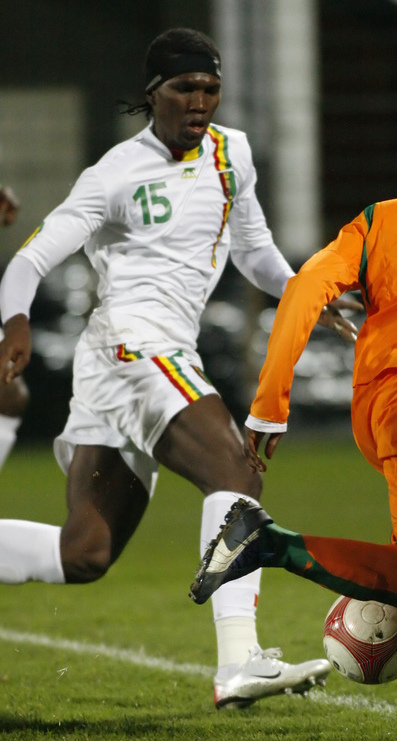 Guinean player Oumar Kalabane during match Guinea vs. Côte d'Ivoire at Stade Robert Diochon, Rouen, France.